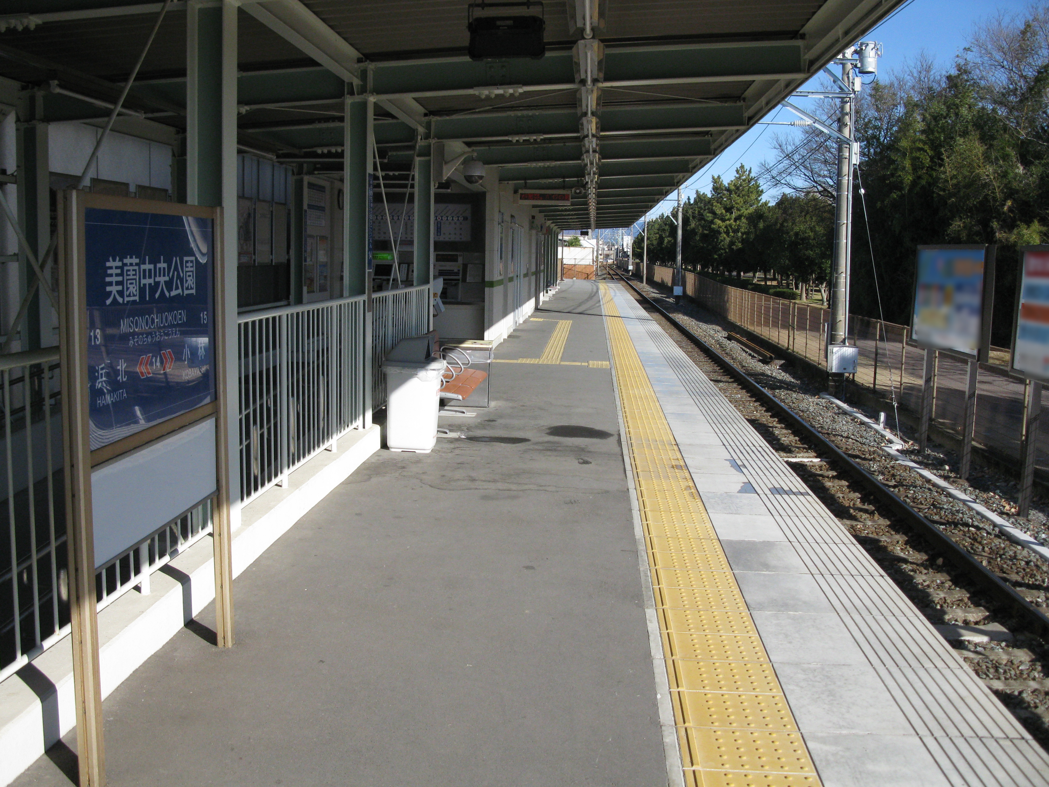 Misono-Chūō-kōen Station platform (Enshū Railway Line)